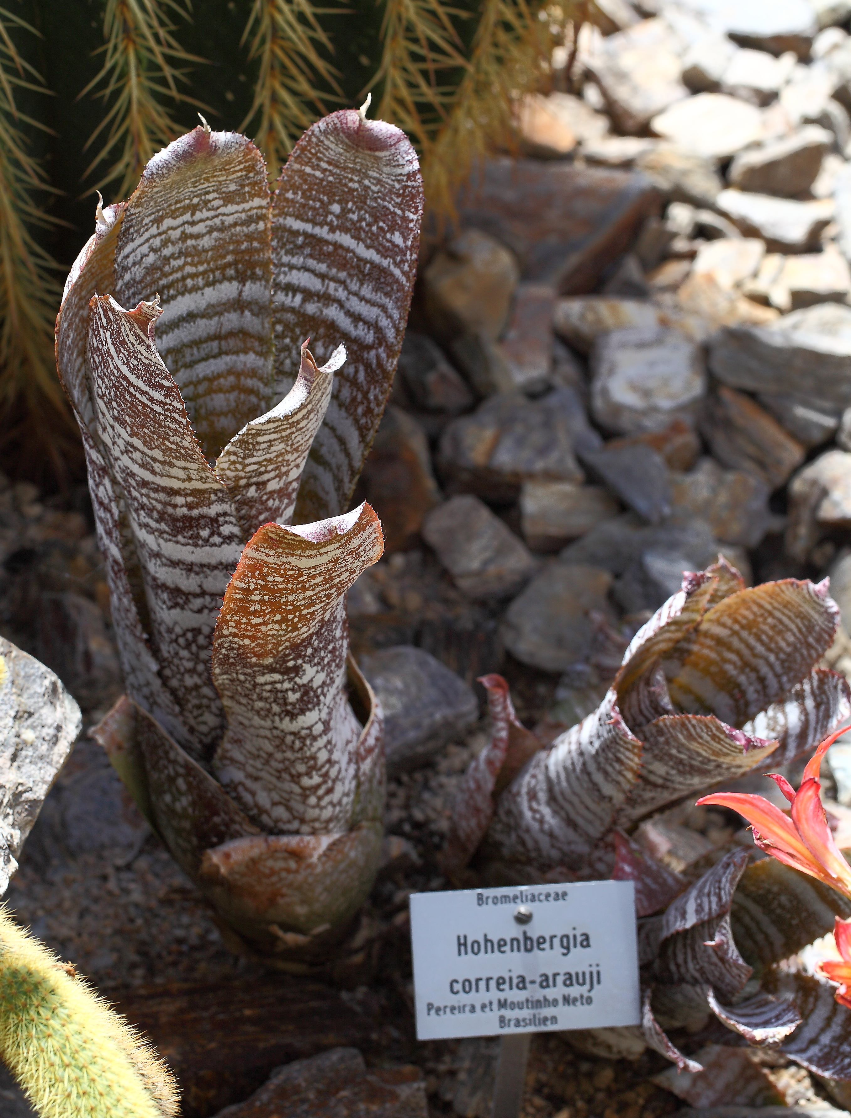 Hohenbergia correia-araujoi, Botanic Garden, Munich, Germany